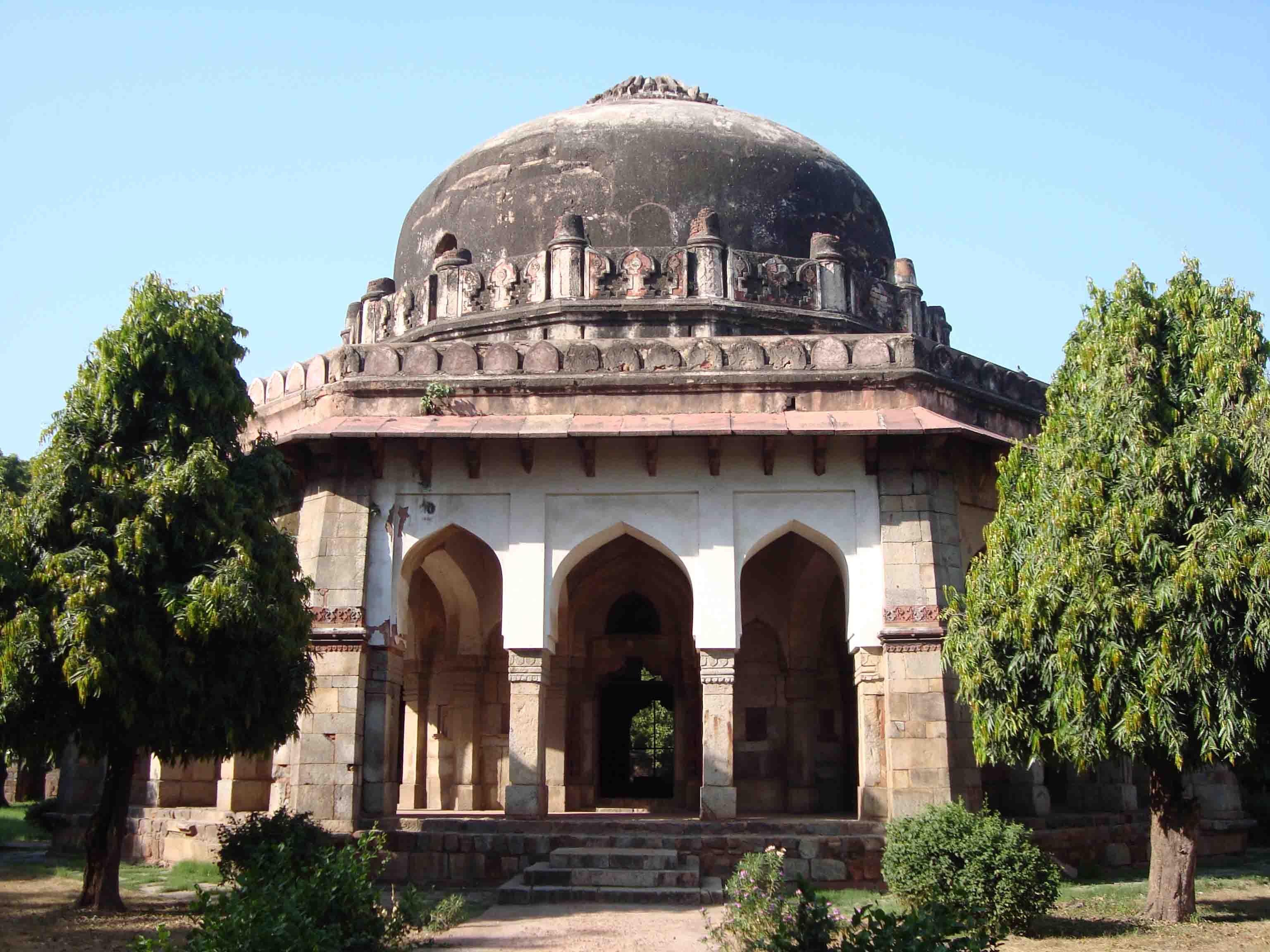 Tomb of Sikandar Lodi